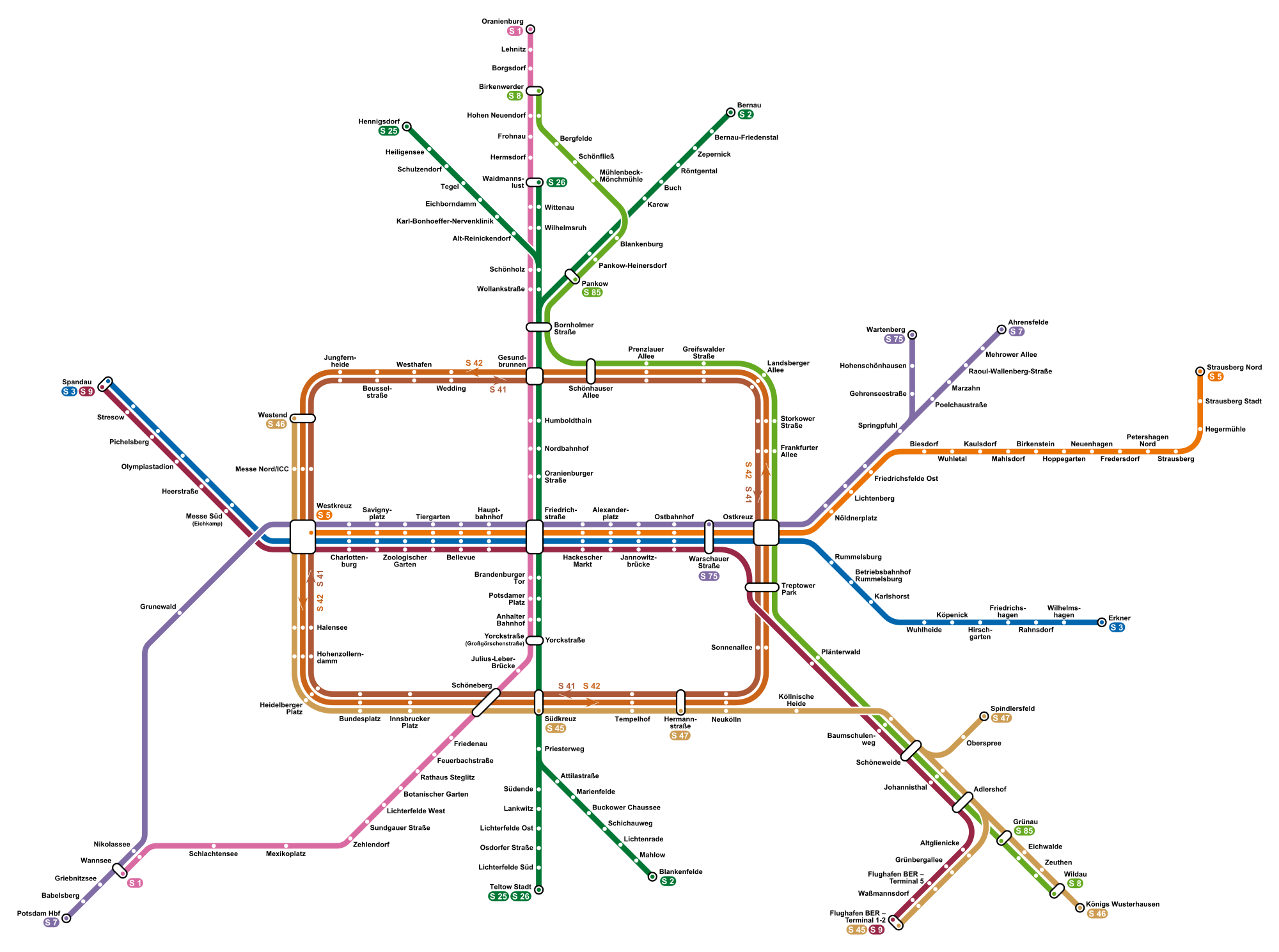 Map of the Berlin S-Bahn.